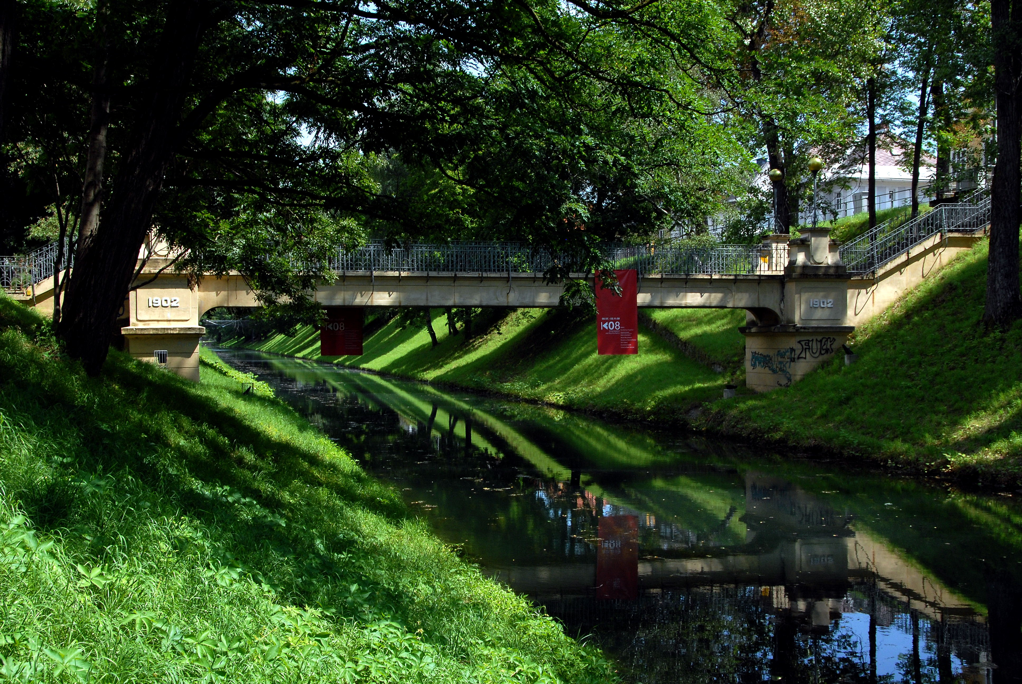 Rizzi bridge of the year 1902 across the Lendkanal, the artificial outflow from the Lake Woerth in Klagenfurt, Carinthia, Austria